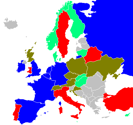 Top division II. division III. division IV. division